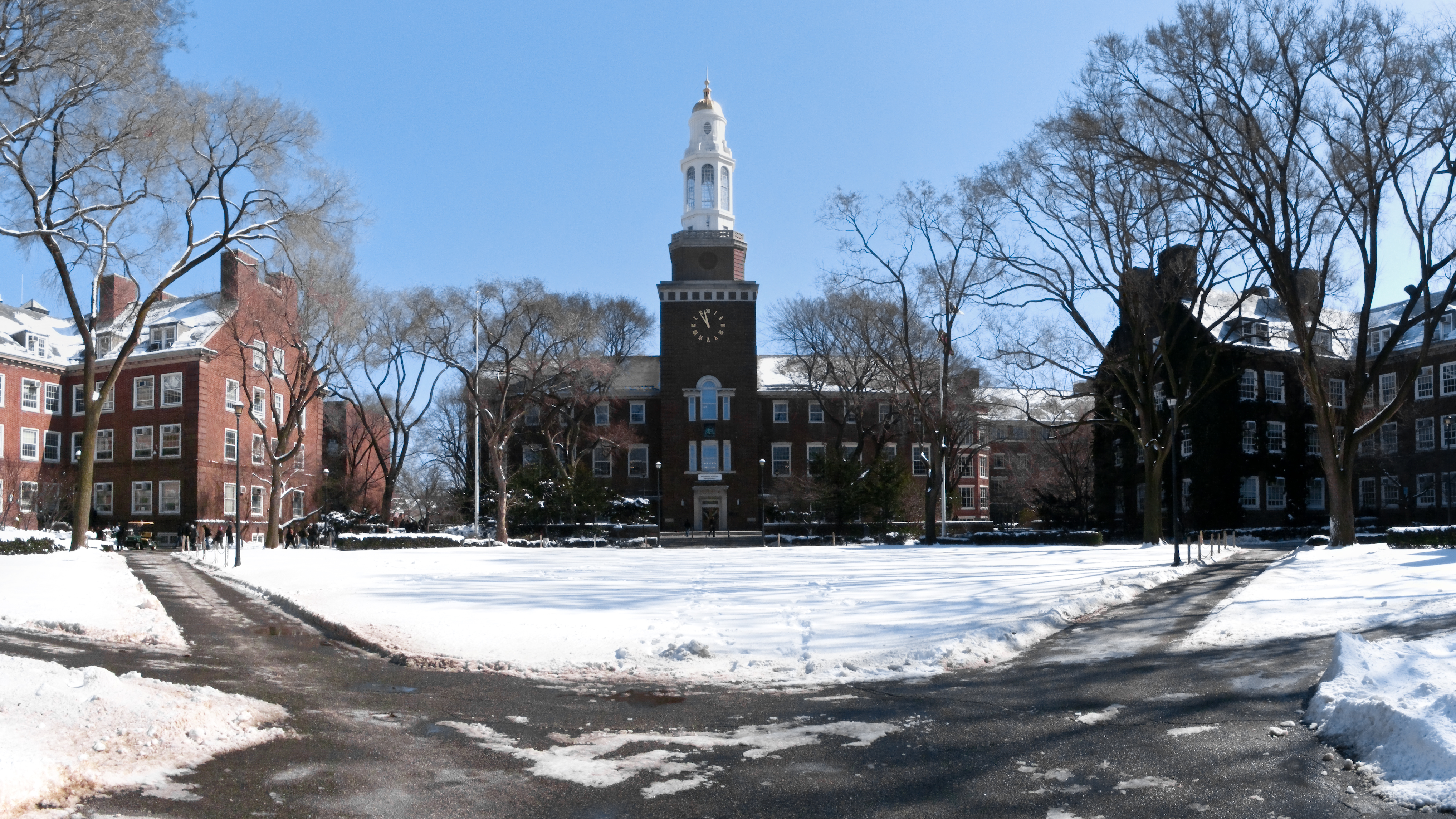 Picture of the east quad of Brooklyn College.